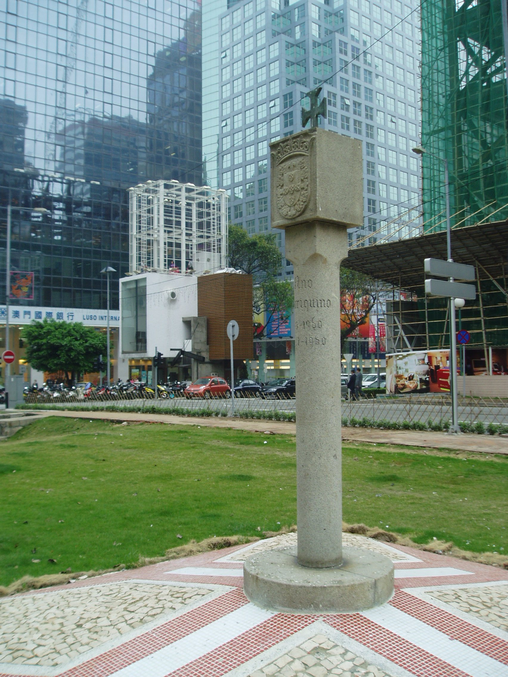 Monument of the discovery in Macau